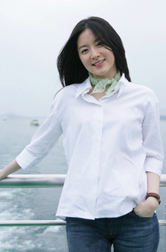 Photograph of South Korean actress Lee Young Ae on boat ride at the Qiandao Lake in China in March 2006.